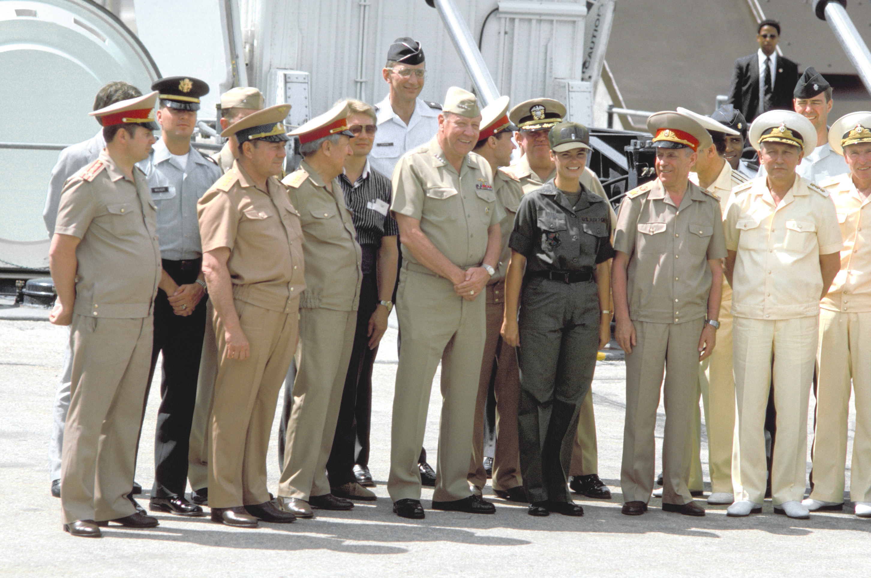 ADM William J. Crowe Jr., chairman of the Joint Chiefs of Staff, poses for a photograph with Marshal Sergey F. Akhromeyev, First Deputy Minister of Defense and Chief of the General Staff of the Soviet Union. Akhromeyev and his delegation are visiting Ellsworth AFB as part of a tour of various U.S. military installations.